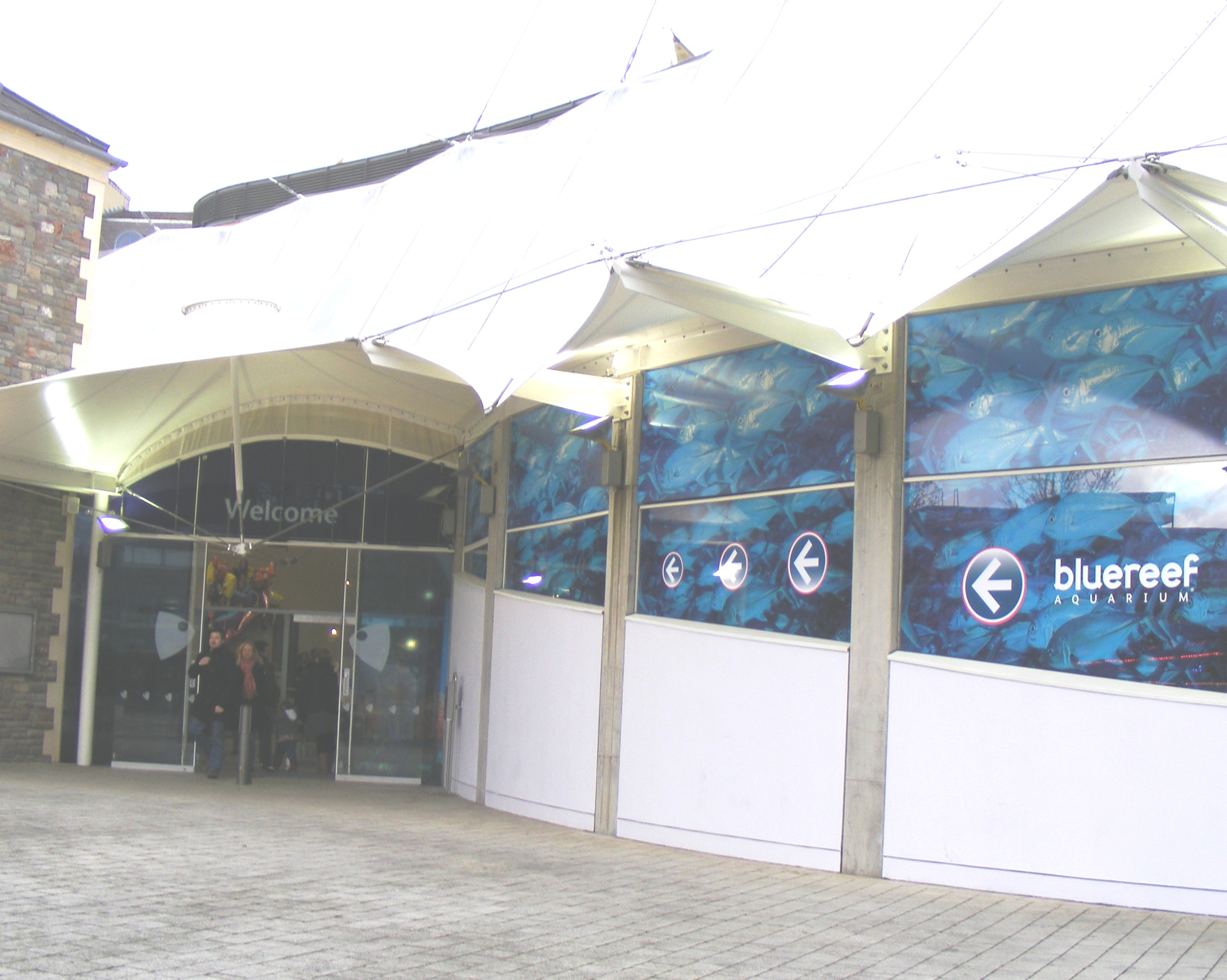 Blue Reef Aquarium Bristol